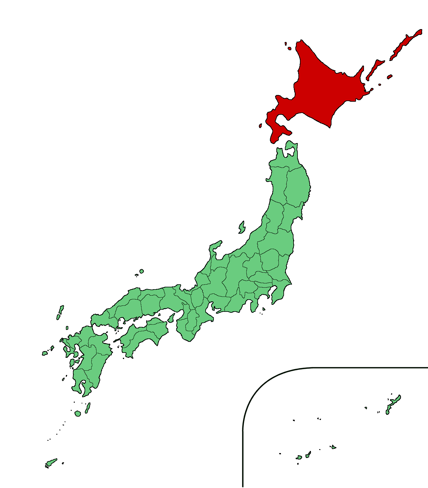 Japanese habitat range of the Hokkaido Brown Bear (Ursus arctos lasiotus), Ussuri brown bear, or black grizzly — within Japan, on Hokkaidō (red). The full range of Ursus arctos lasiotus includes: the Ussuri Krai, Sakhalin island, the Amur Oblast, northward to the Shantar Islands, Kunashiri Island, and Iturup Island in Russia; northeastern China; the Korean Peninsula; and Hokkaidō island in Japan.